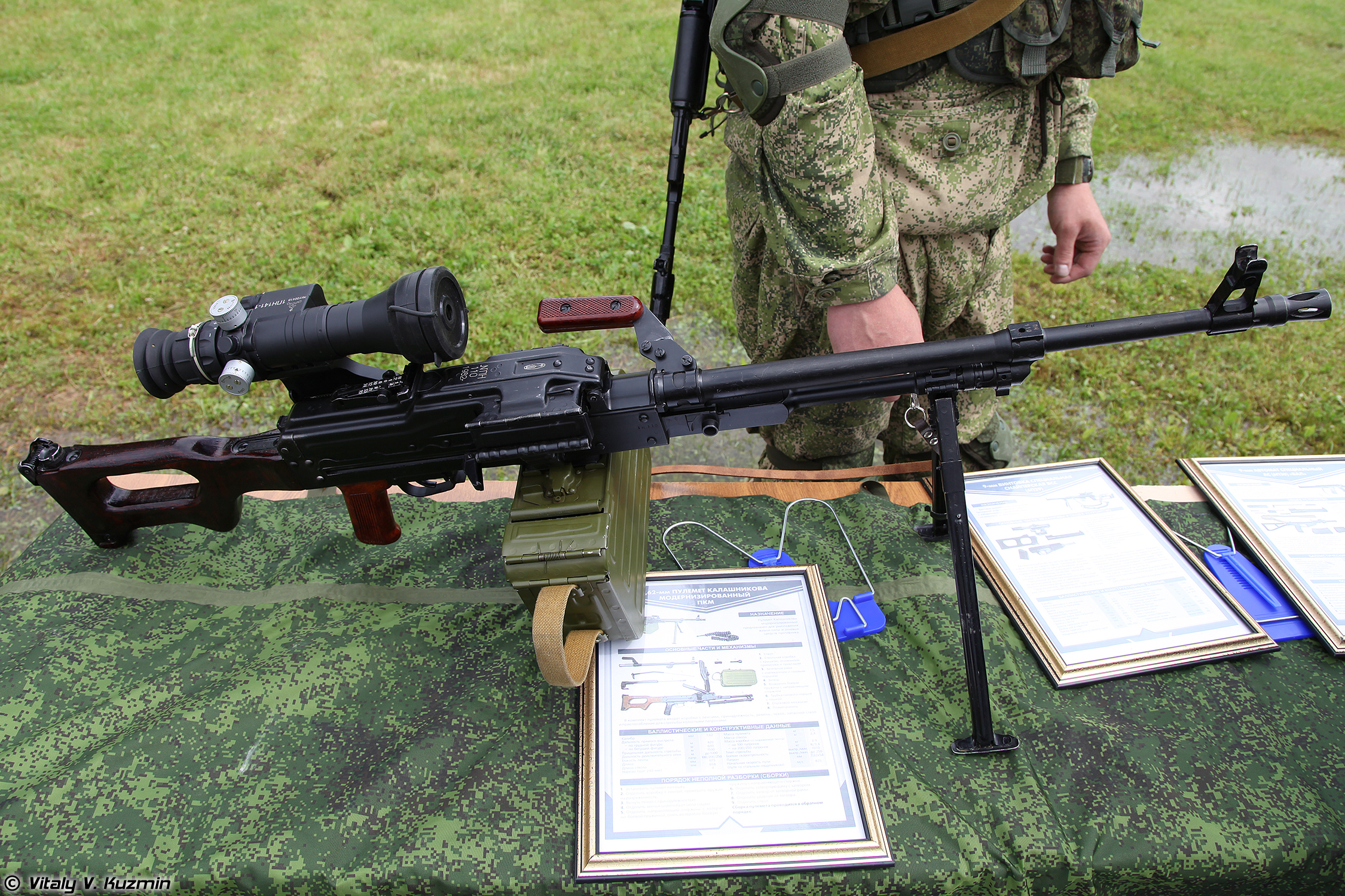 PKMN machine gun variant with with a 100-round ammunition box mounted on the receiver and 1PK141-1 3.5× night sight. The "N" after cthe "PKM" designation denotes it is a PKM Night-Vision variant.